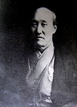 Shunko Sugiura